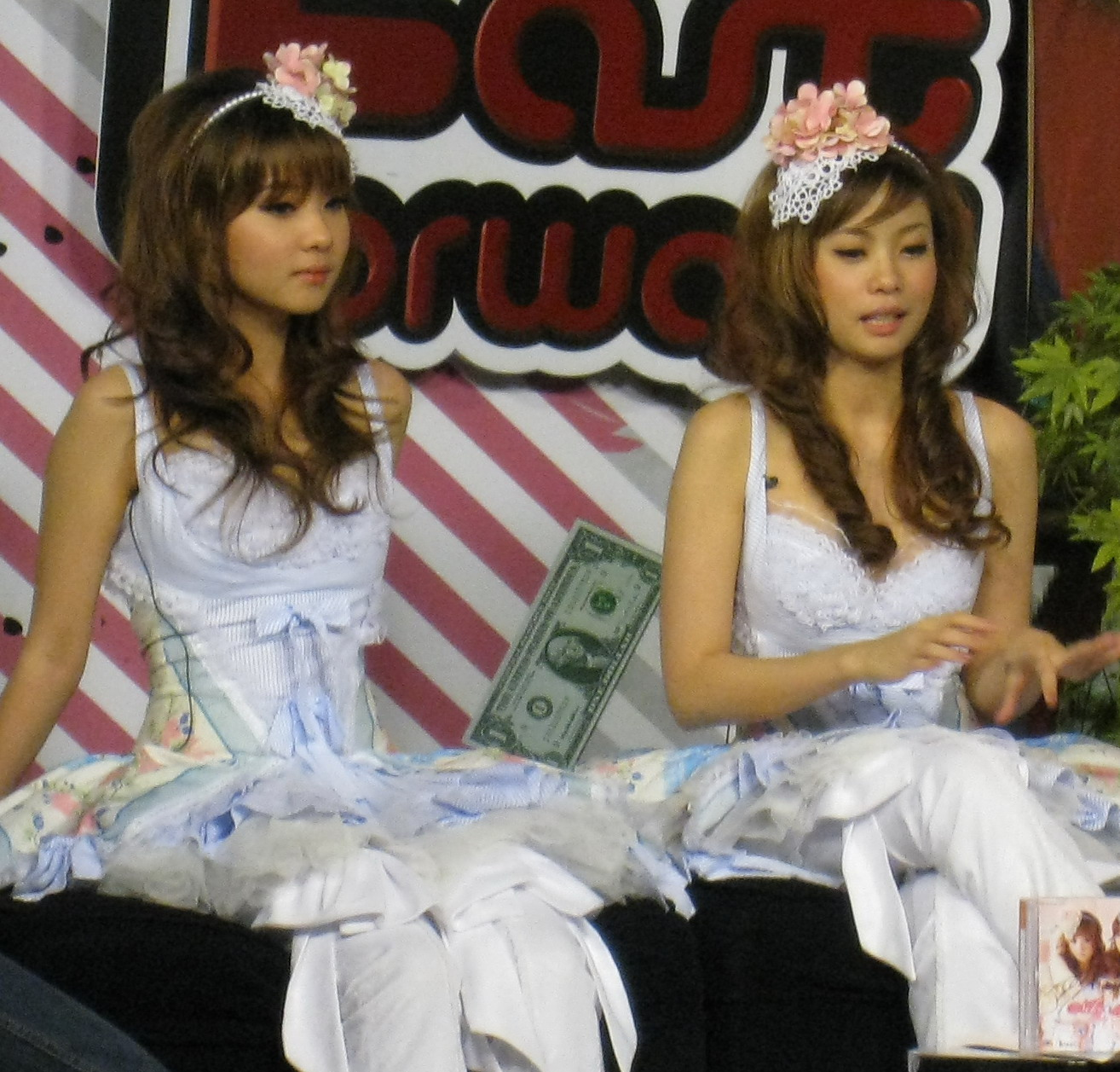 Neko Jump at MTV Fast Forward